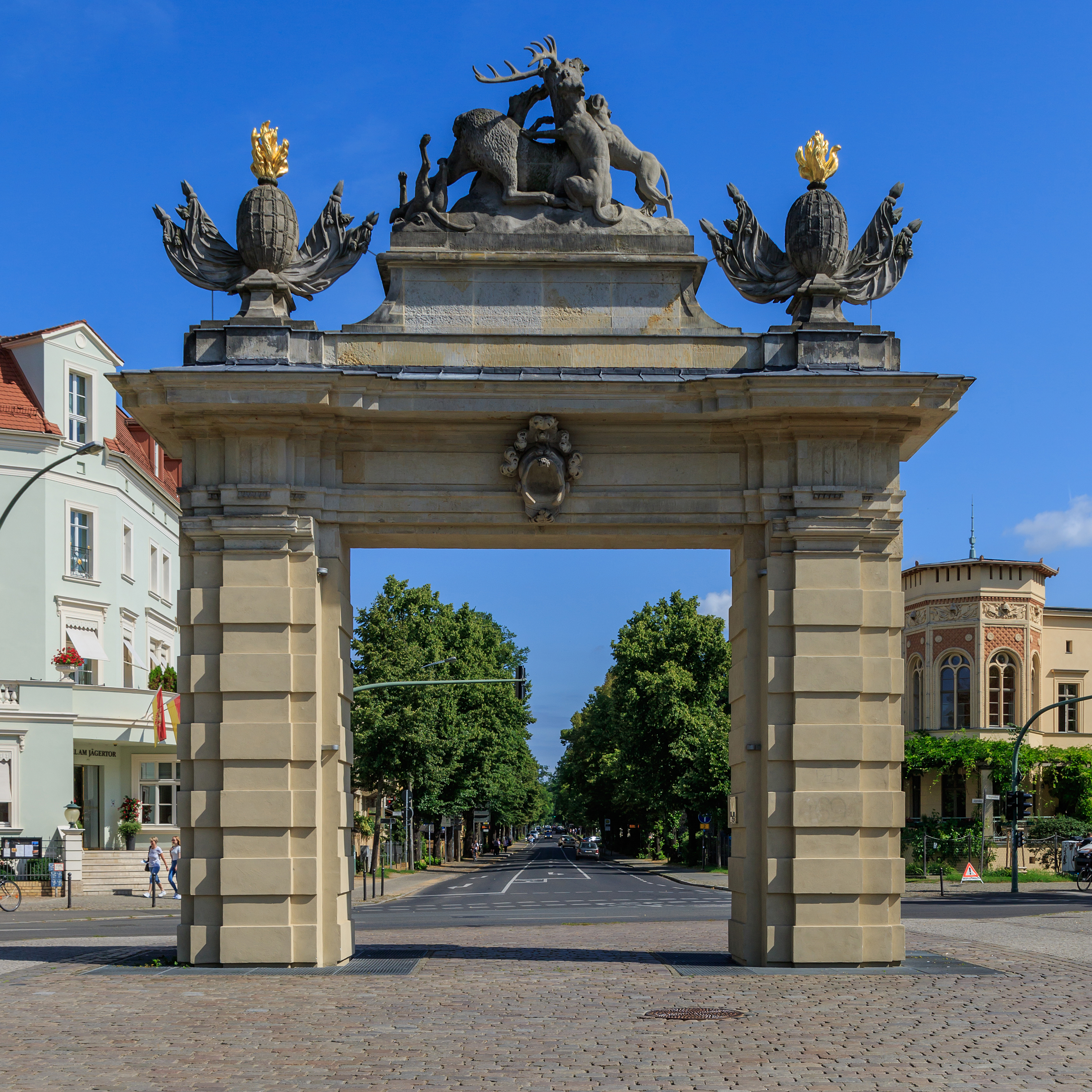 Hunting Gate in Potsdam (Germany)